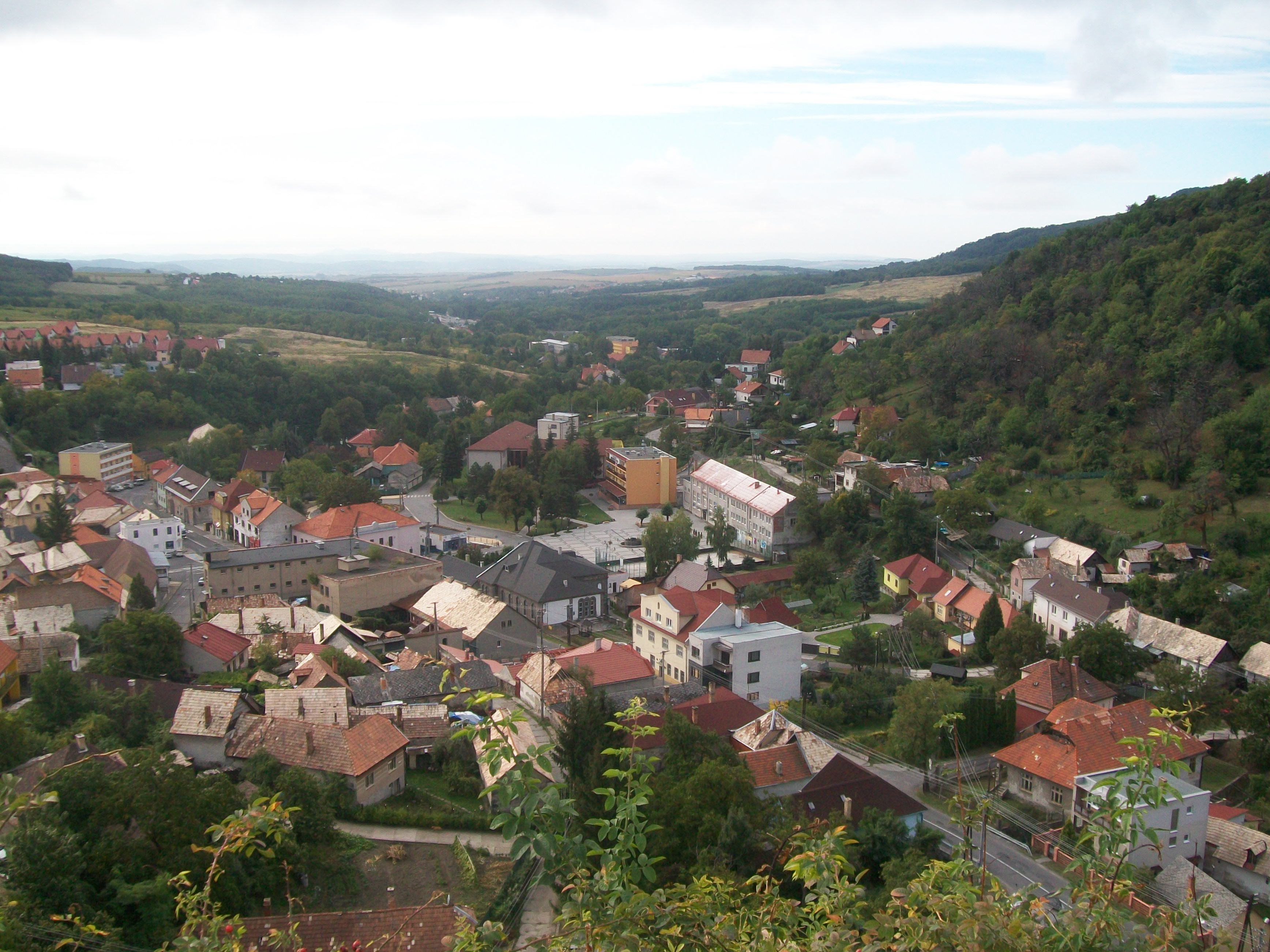 View from the castle to the city